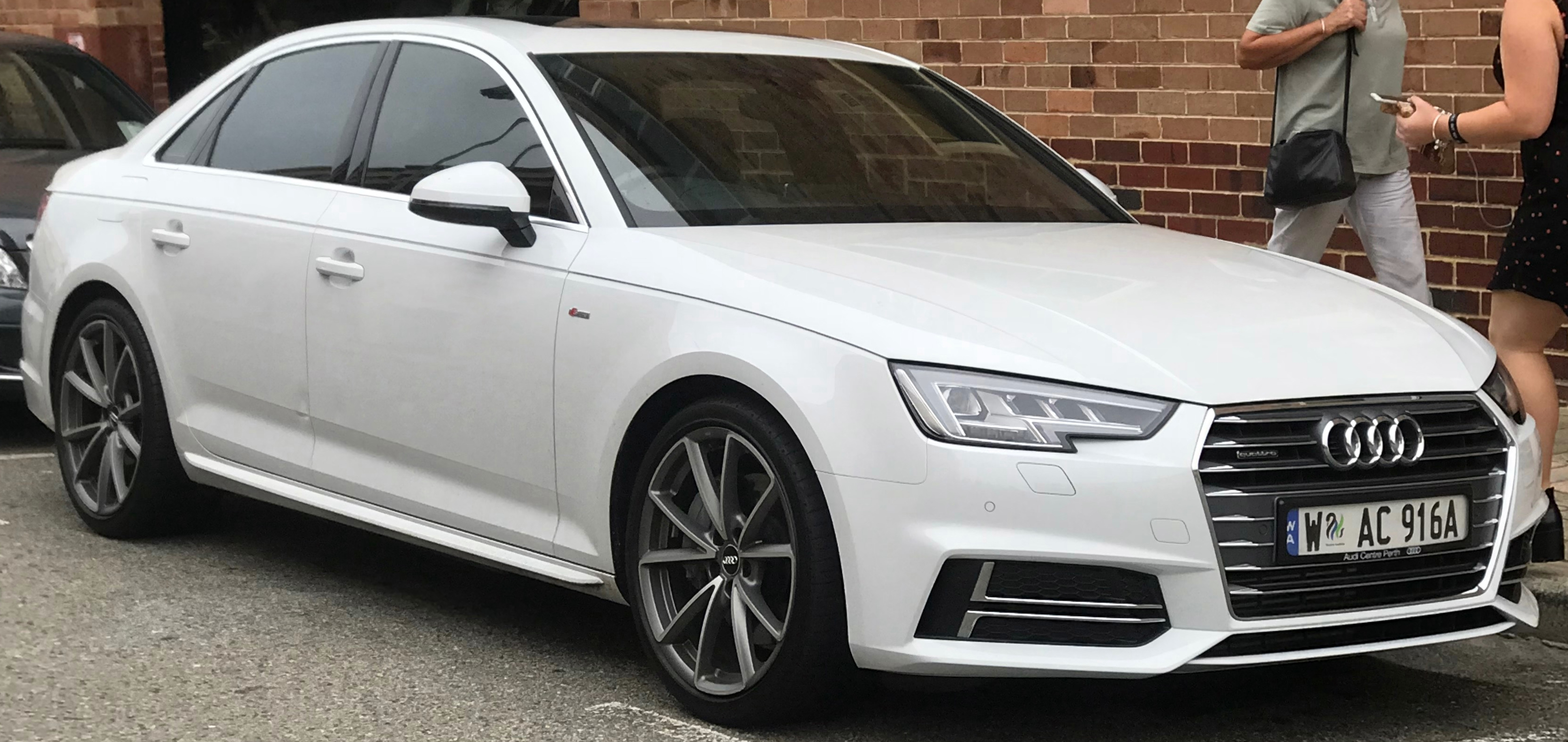 2017 Audi A4 (8W) S-Line quattro sedan. Photographed in Fremantle, Western Australia, Australia.